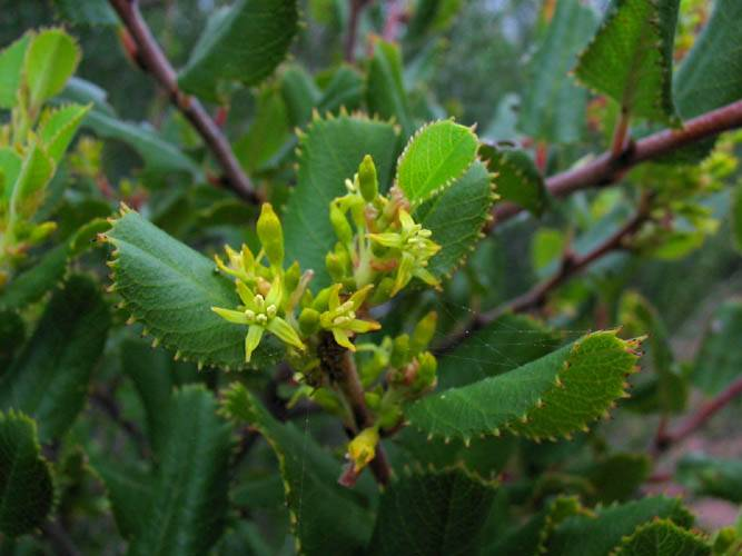 Rhamnus ilicifolia at Circle X Ranch: Mishe Mokwa trail, Santa Monica Mountains National Recreation Area, California, USA.